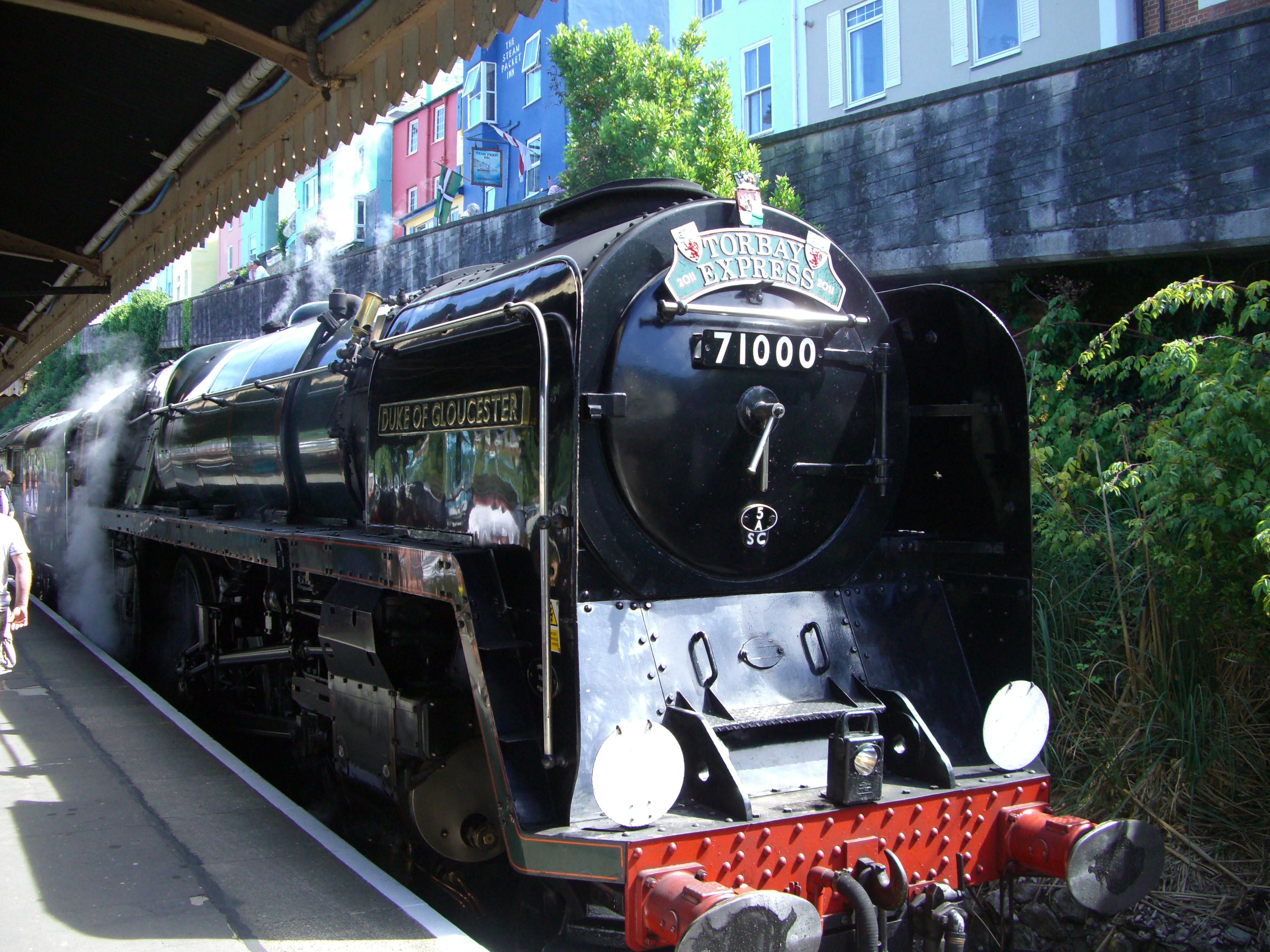 BR Standard Class 8 locomotive 71000 Duke Of Gloucester arrives at Kingwear station as the "Torbay Express".